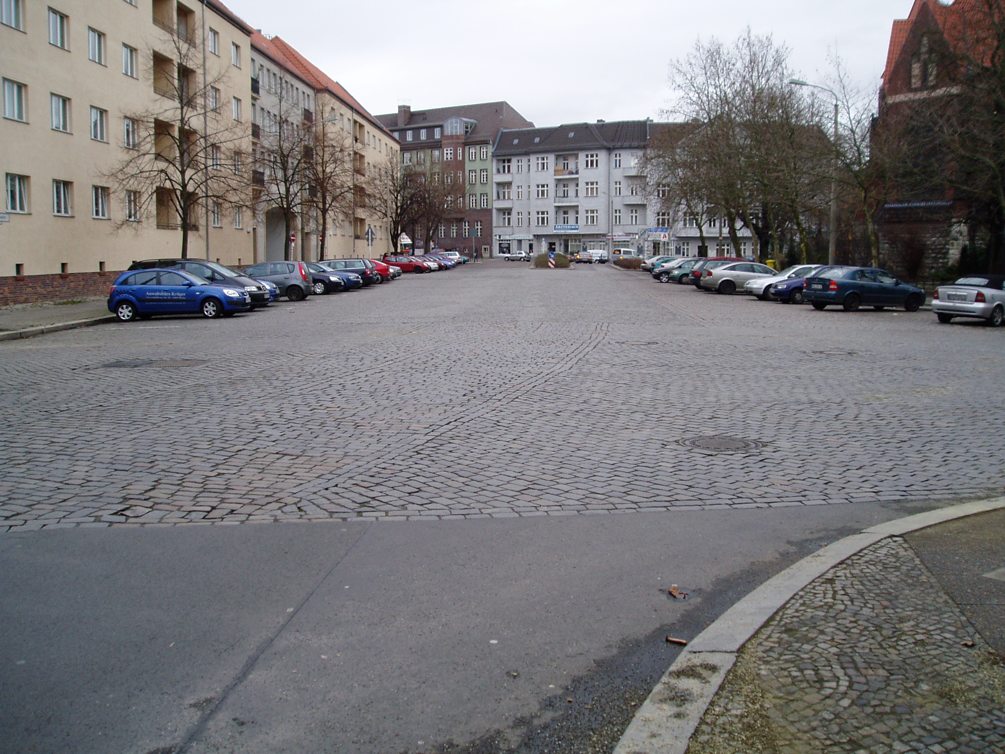 Berlin-Lichtenberg, Roedeliusplatz (former Wagnerplatz), view from Normannenstraße